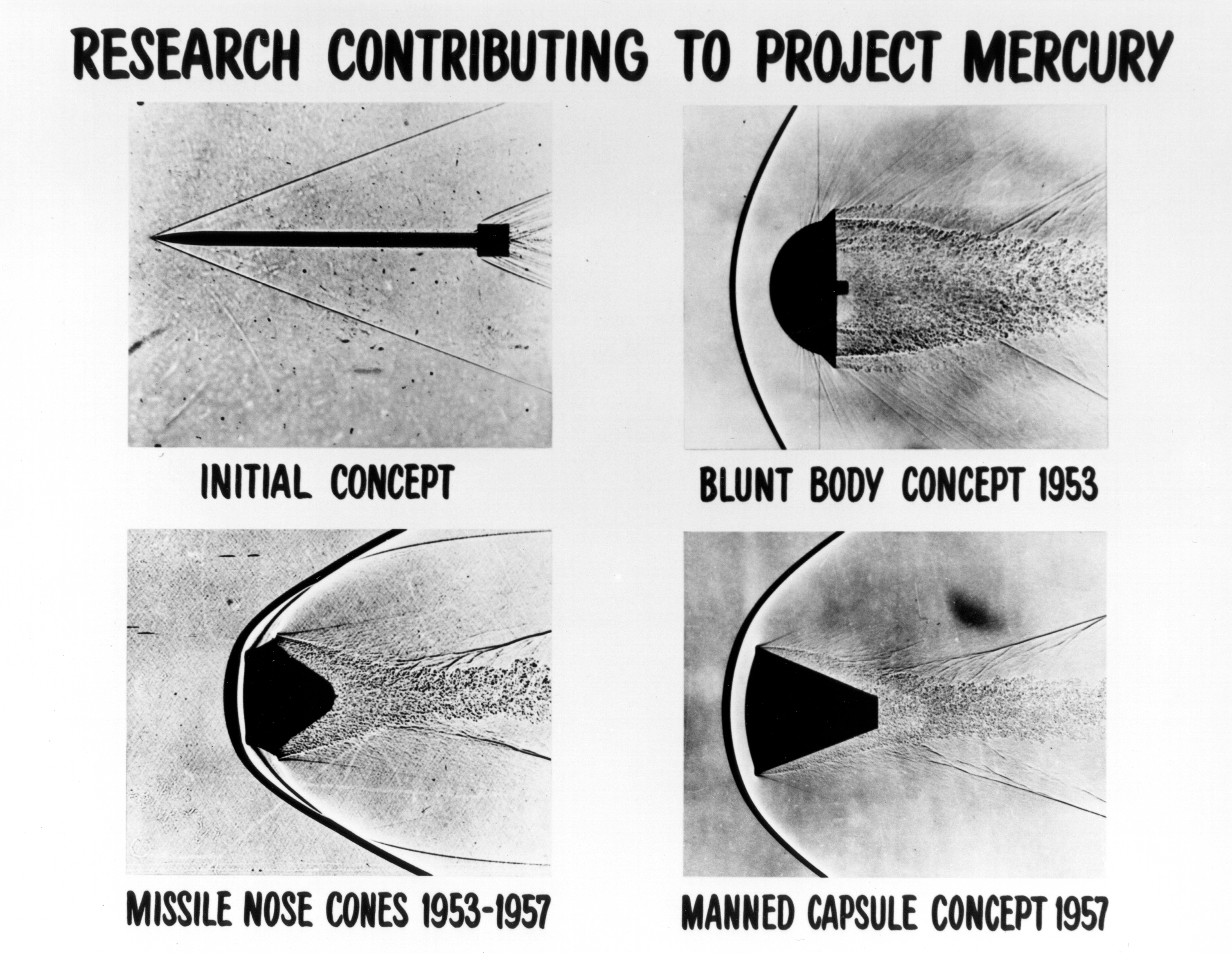 These four shadowgraph images represent early re-entry vehicle concepts. A shadowgraph is a process that makes visible the disturbances that occur in a fluid flow at high velocity, in which light passing through a flowing fluid is refracted by the density gradients in the fluid resulting in bright and dark areas on a screen placed behind the fluid. H. Julian Allen pioneered and developed the Blunt Body Theory which made possible the heat shield designs that were embodied in the Mercury, Gemini and Apollo space capsules, enabling astronauts to survive the fiery re-entry into Earth's atmosphere. A blunt body produces a shockwave in front of the vehicle--visible in the photo--that actually shields the vehicle from excessive heating. As a result, blunt body vehicles can stay cooler than pointy, low drag vehicles.